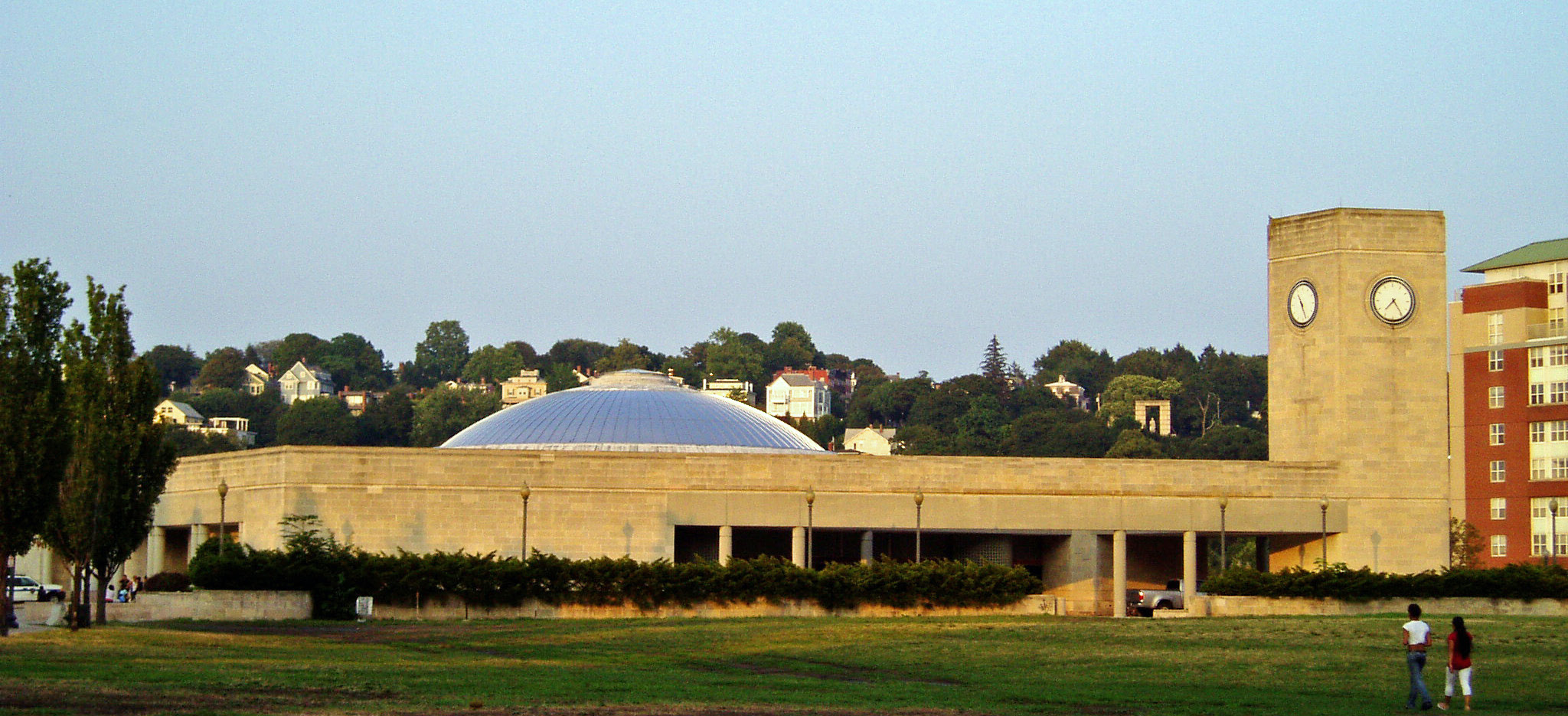 Providence's train station, built 1988.